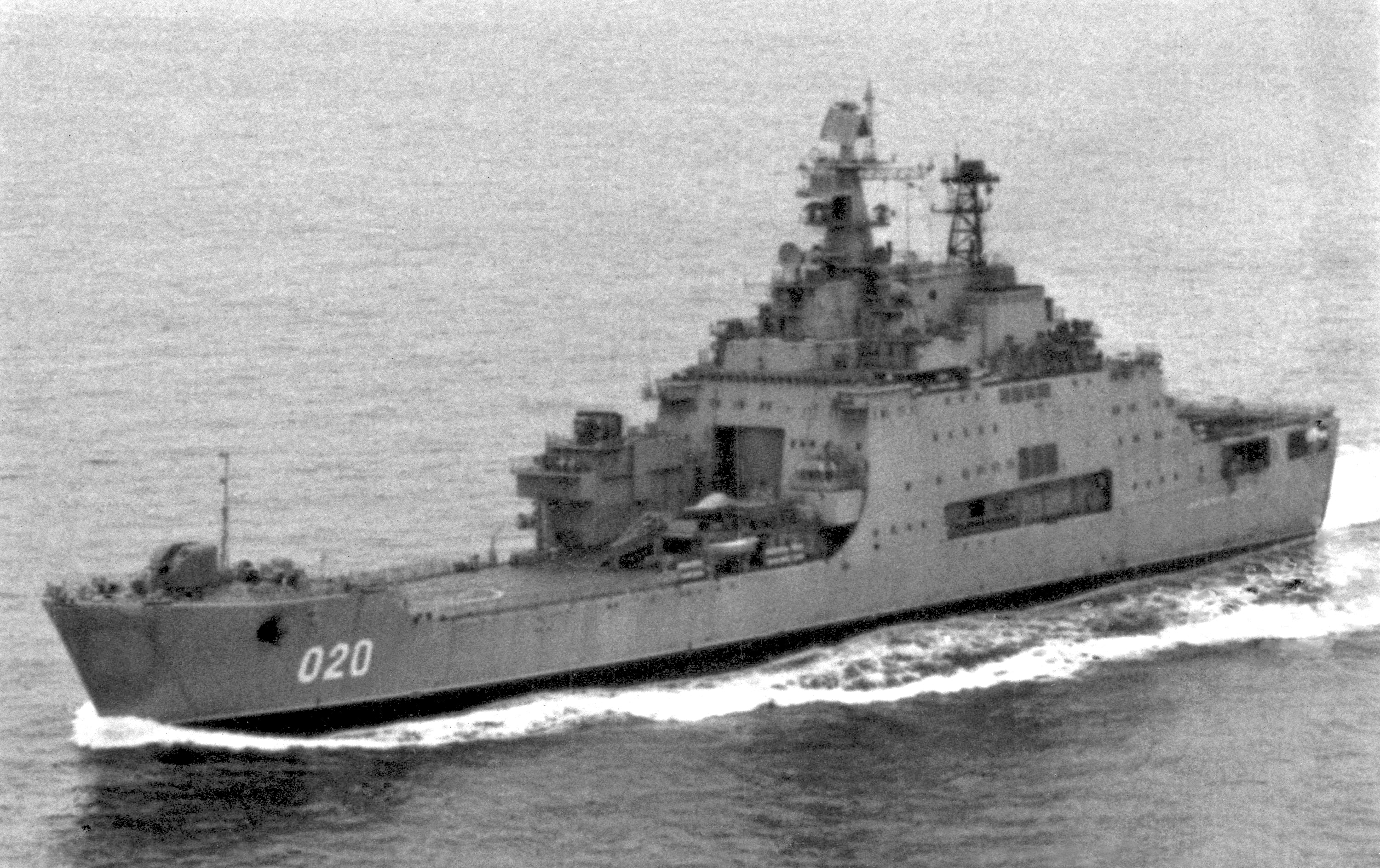 Russian Navy Northern Fleet Ivan Rogov class amphibious dock landing ship MITROFAN MOSALENKO (LPD-202) underway.